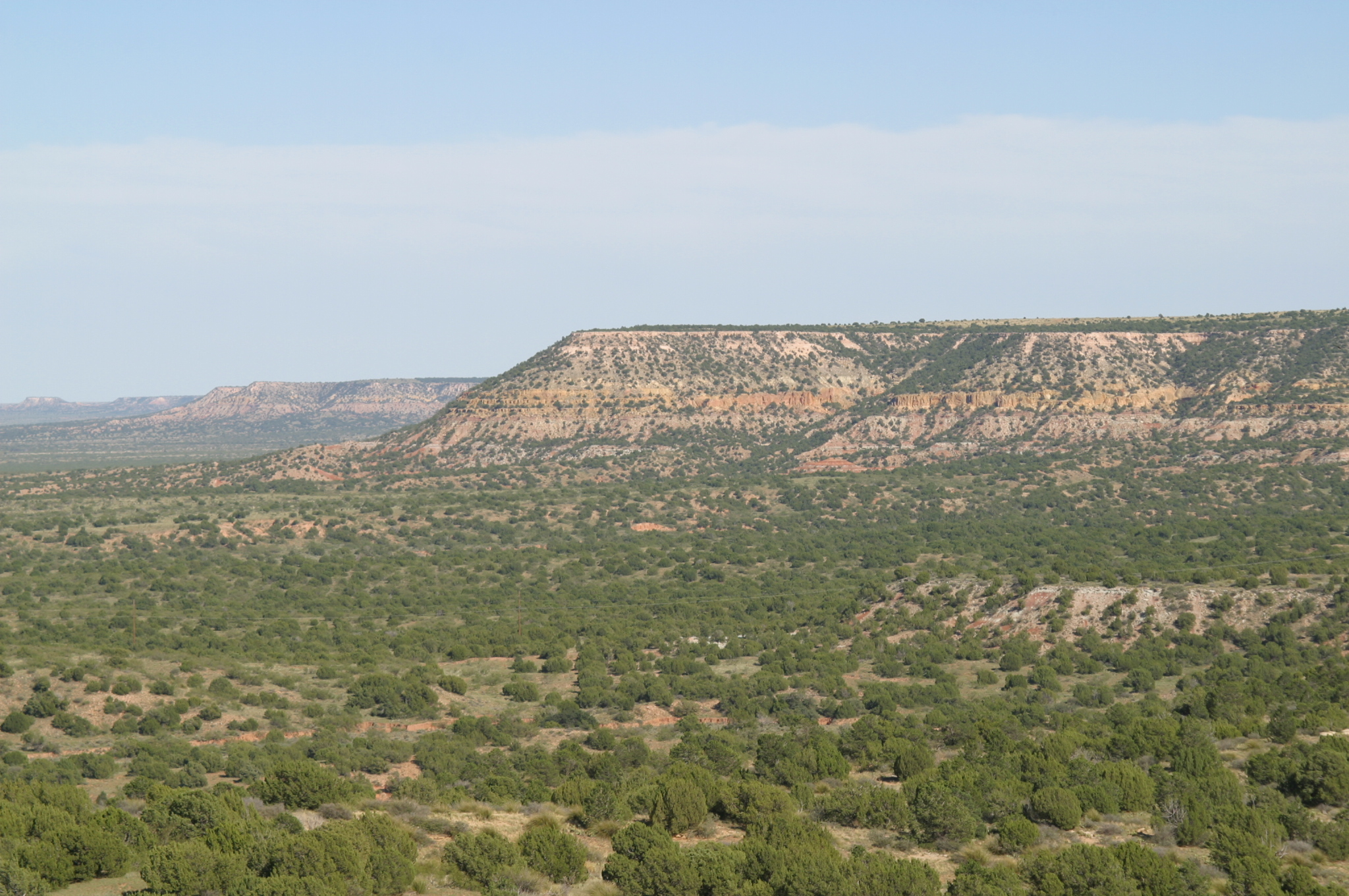 Escarpment that defines the northern edge of high plains of the Llano Estacado. View looking east from a point 14 km south of San Jon, Eastern New Mexico. The view today is very different from that of 2003. Numerous wind turbines have been installed along these precipitous cliffs.